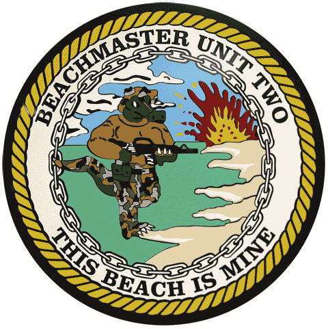 BMU-2 emlbem